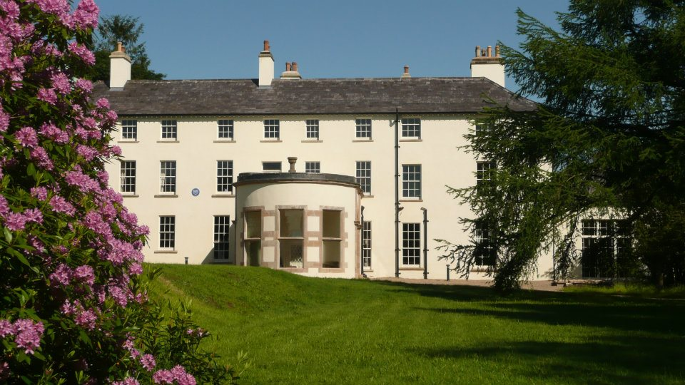 Entrance Front, Lissan House